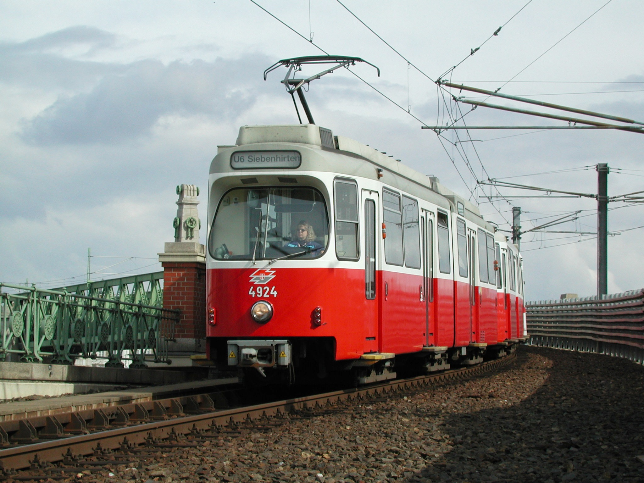 Train on U6, consisting of E6 railcars and c6 trailers on the bridge over Wiental near Längenfeldgasse